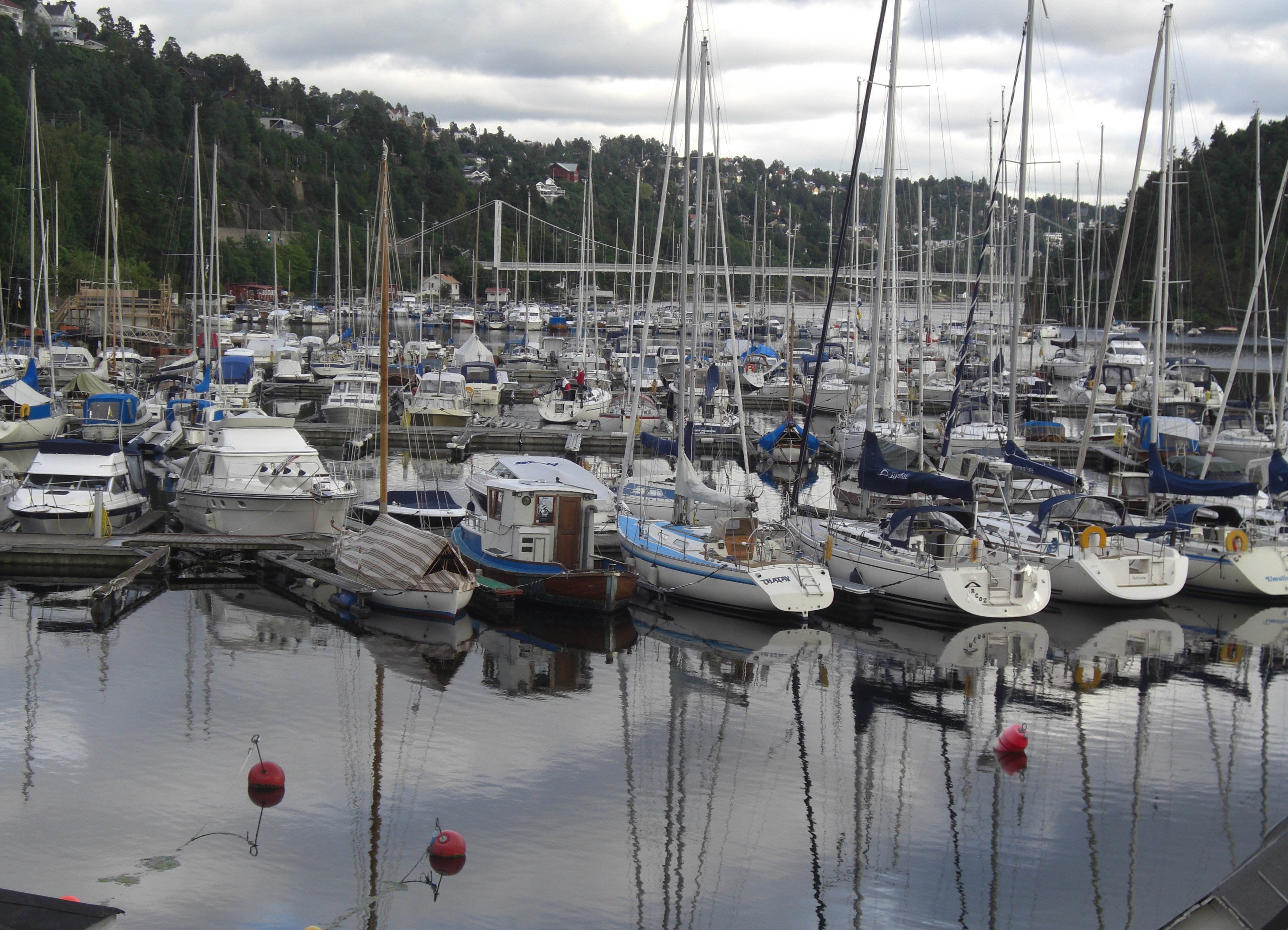 Boat harbour